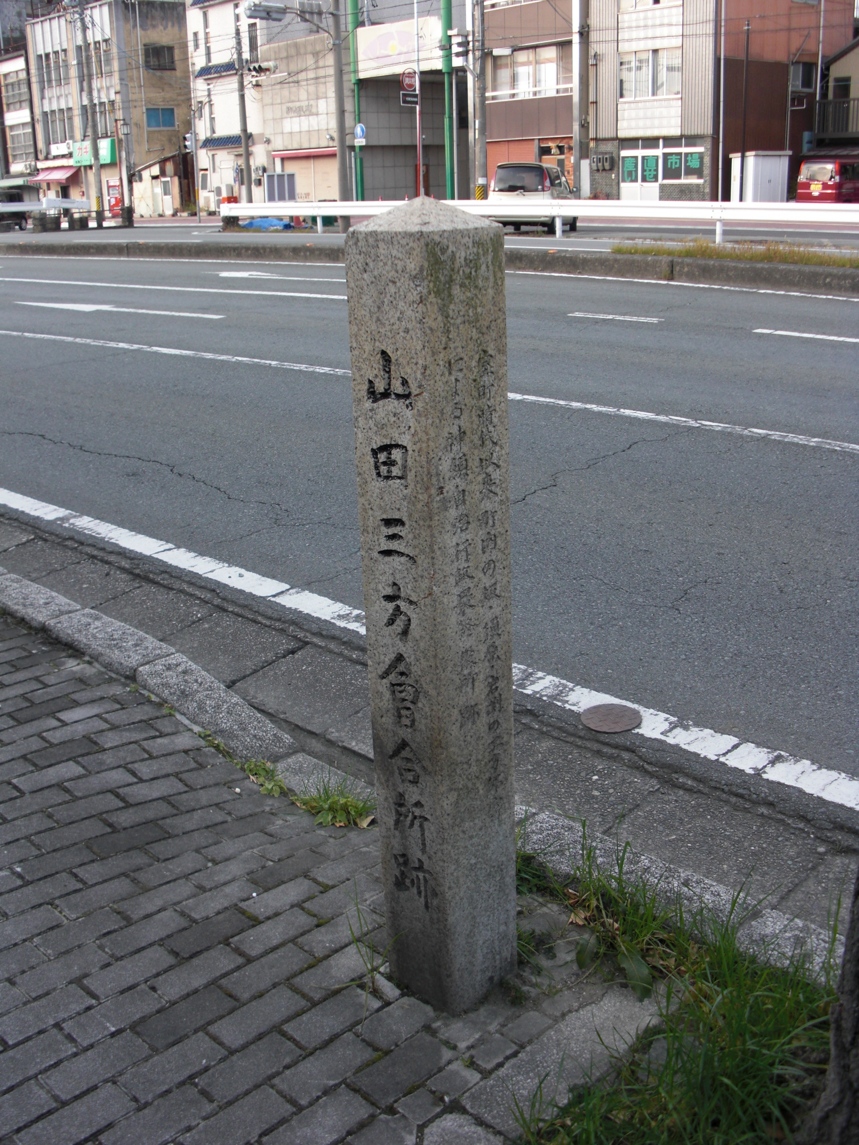 This is the site called "Yamada Sampo Egosho". Yamada Sampo Egosho was the self-governance office of Yamada (Now, this place is known as Ise City, Japan).